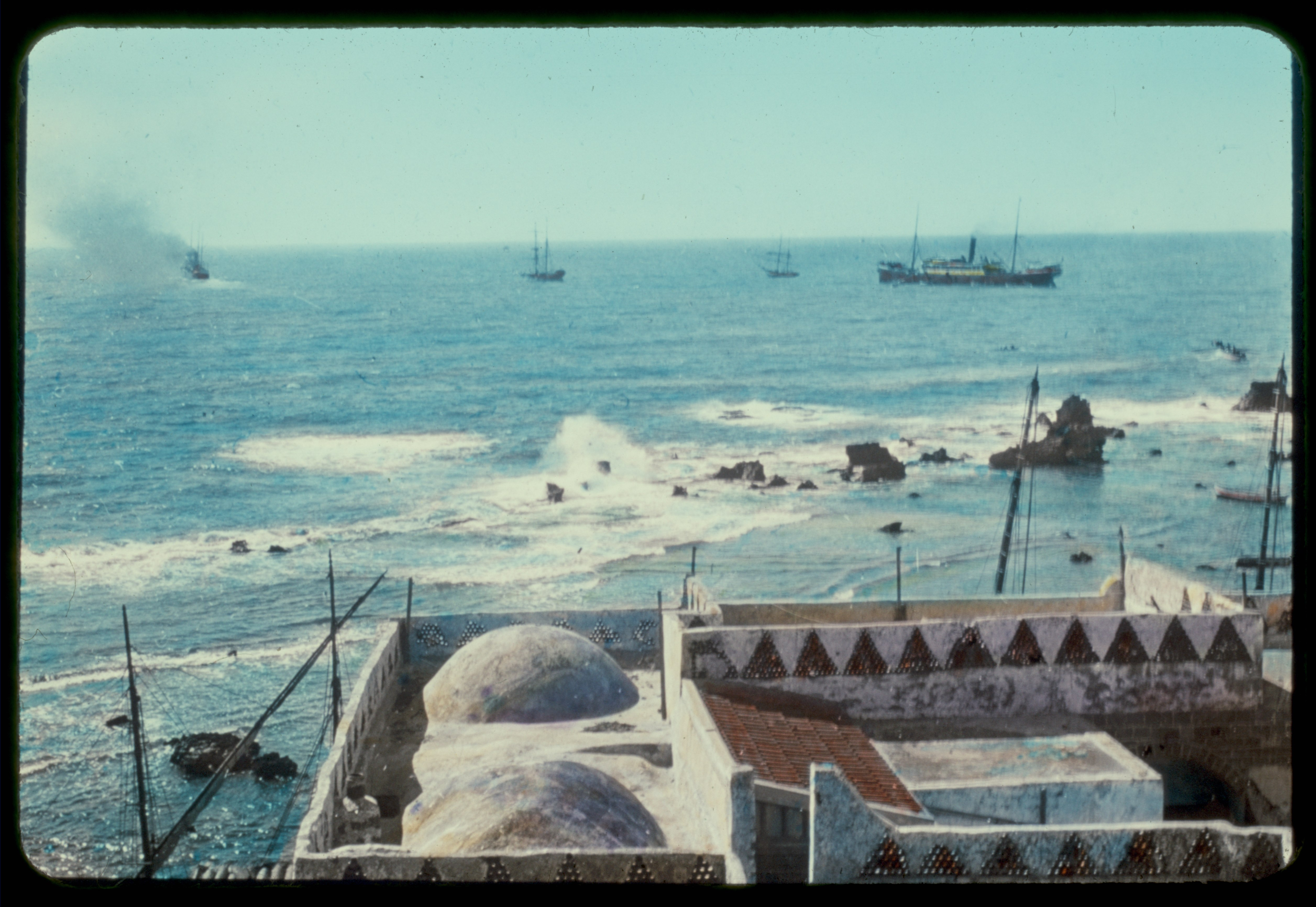 Title: Jaffa to Jerusalem. Jaffa, view from House of Simon the Tanner Abstract/medium: G. Eric and Edith Matson Photograph Collection Physical description: 1 slide